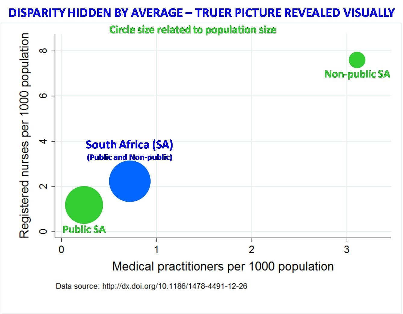 An infographic derived from depicting the number of medical practitioners and registered nurses per thousand population in South Africa. Suggested citation format: (2015). "Estimating the lost benefits of not implementing a visual inspection with acetic acid screen and treat strategy for cervical cancer prevention in South Africa". Wikiversity Journal of Medicine 2 (1). ISSN 20018762.